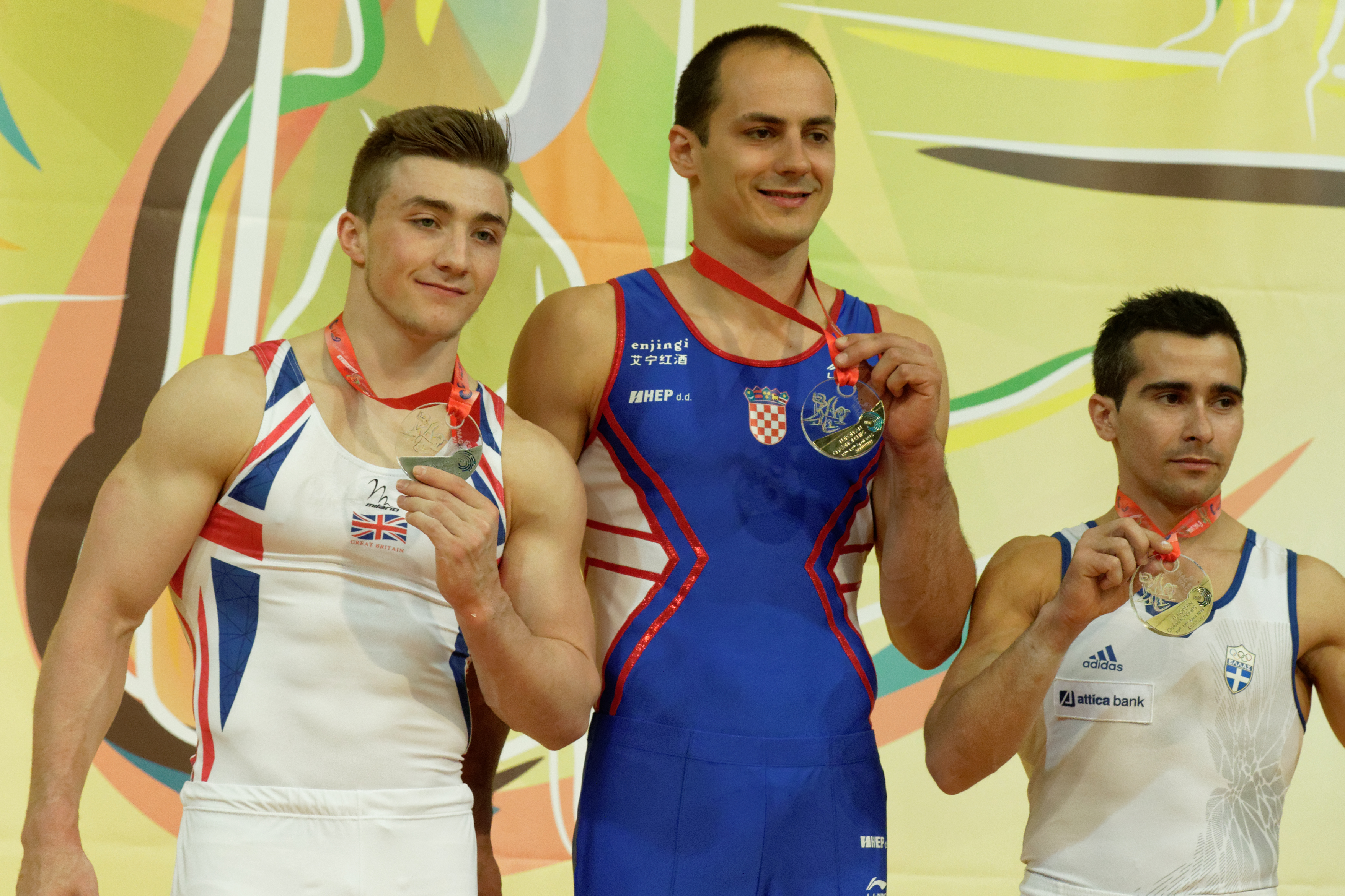 2015 European Artistic Gymnastics Championships.